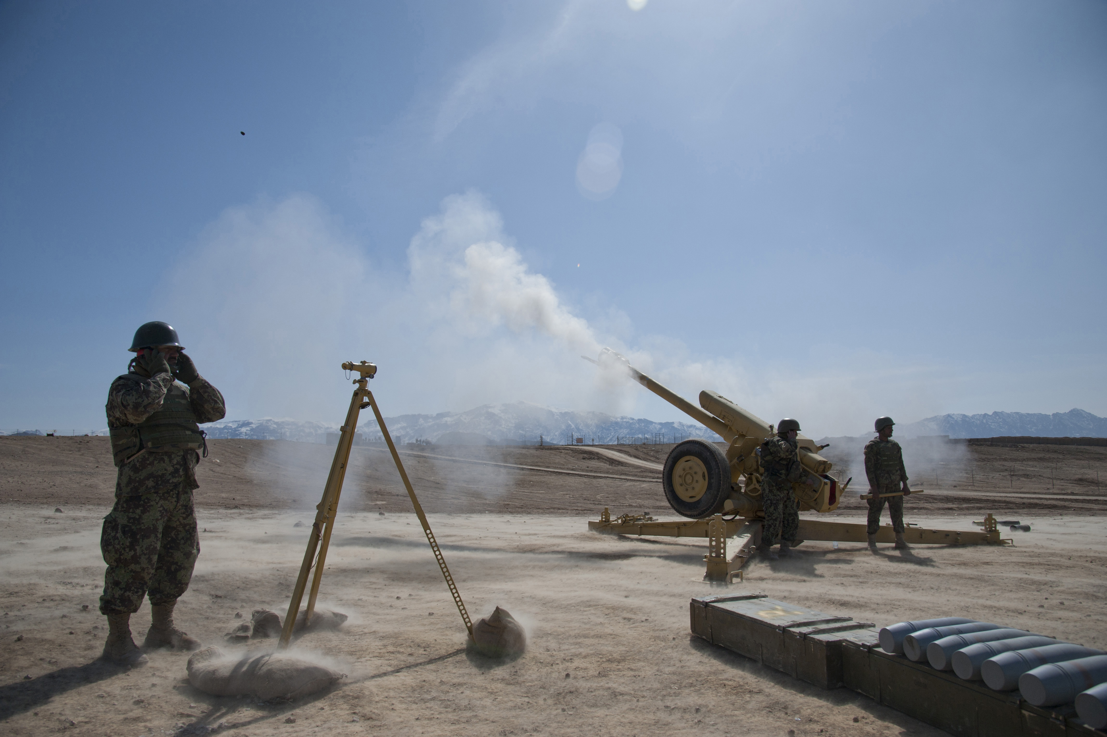 Members of the 4th Kandak, 4th Brigade, 205th Corp. of the Afghan National Army fire high explosive munitions during a three day live fire excercise, Feb. 15, certifying them after 16 weeks of training on the D-30 Howizter. U.S. Army 1st Battalon, 21st Field Artillery, 41st Fires Brigade, 1st CAV division out of Fort Hood, Texas, is the only U.S. Mentoring and Evaluation Training Team to train the ANA on this artillery weapons system. (U.S. Air Force photo by Staff Sgt. Bryan Boyette)